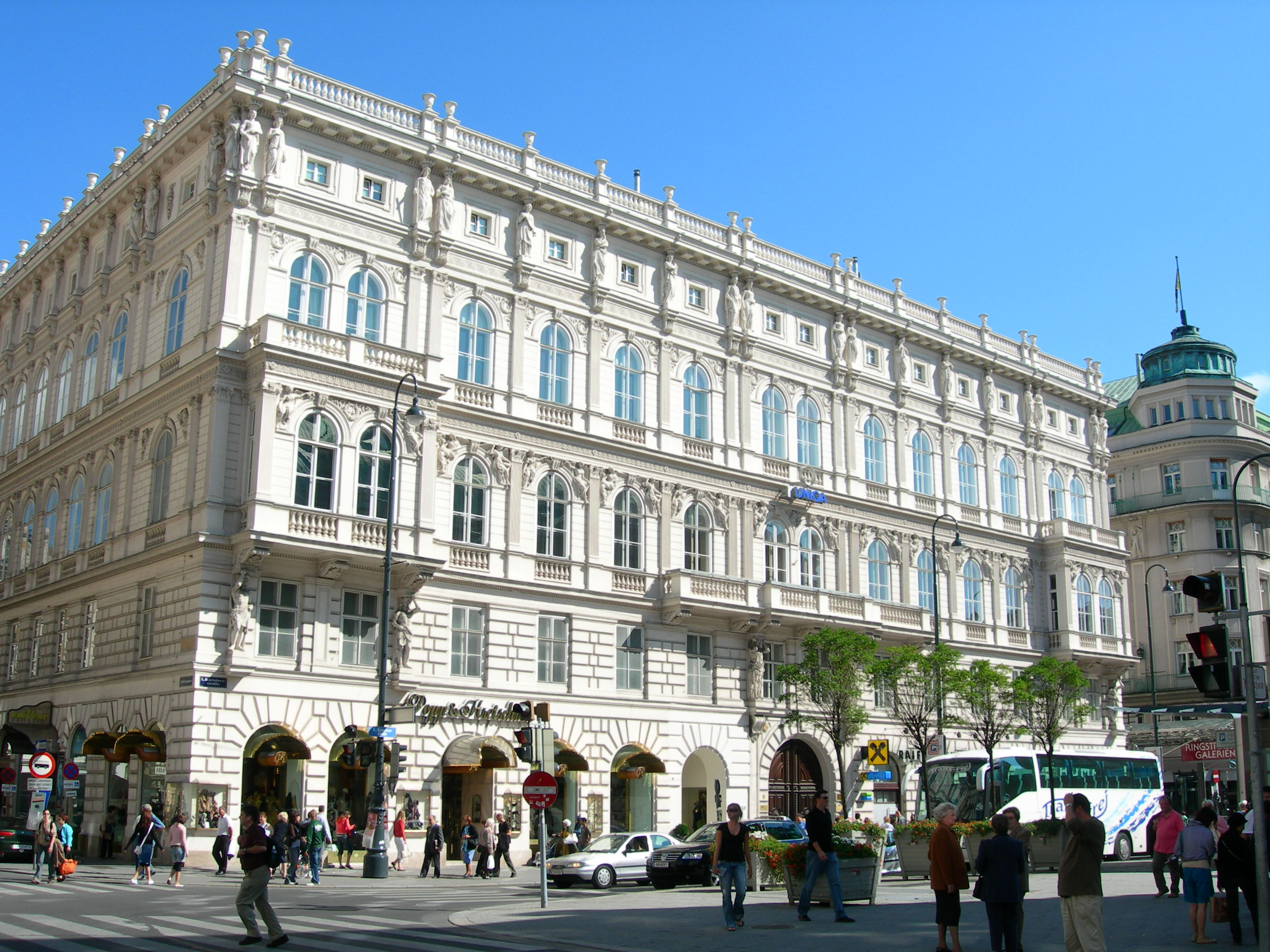 The Palais Todesco in Vienna, built for the Jewish aristocratic family Todesco.